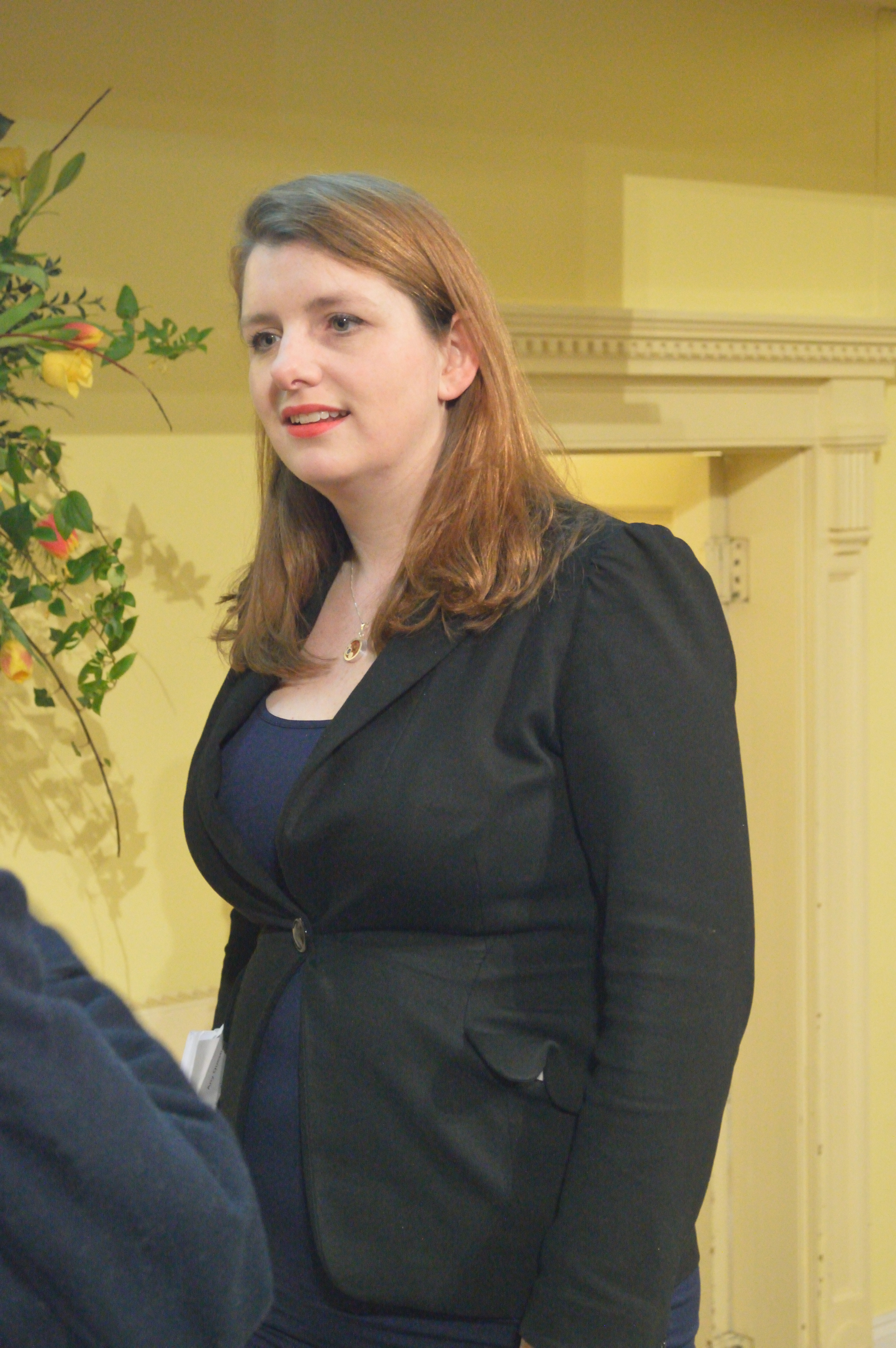 Alison McGovern after speaking in the BBC Radio 4 Any Questions? programme at the Nexus Methodist Church, Bath, on 15 January 2016.